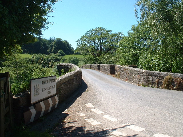 Horsebridge. Bridge over the River Tamar between Devon and Cornwall dating from 1437